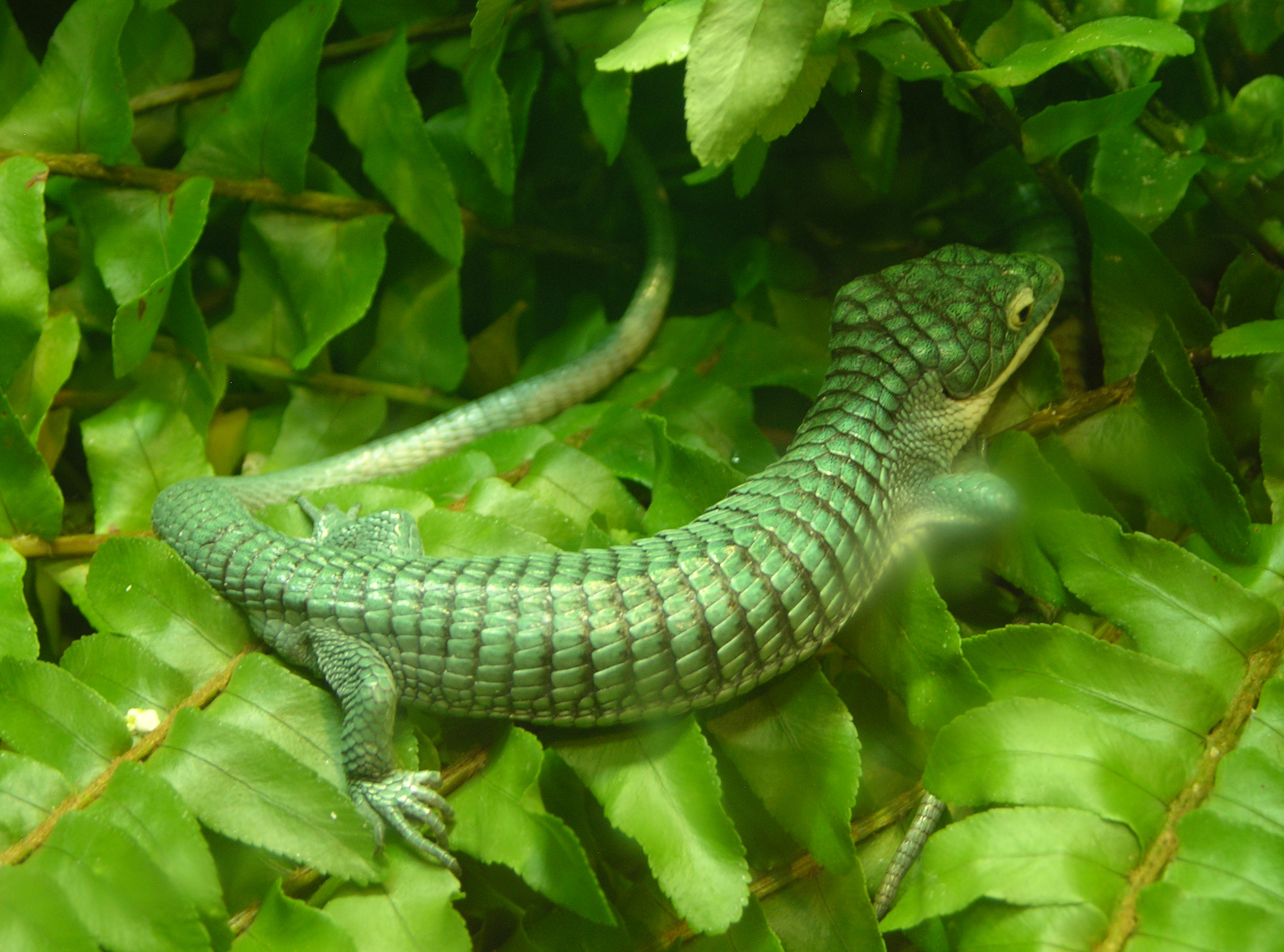 Picture of an Arboreal Alligator Lizarden (Abronia graminea en ). Picture taken at and identified by the Philadelphia Zoo.